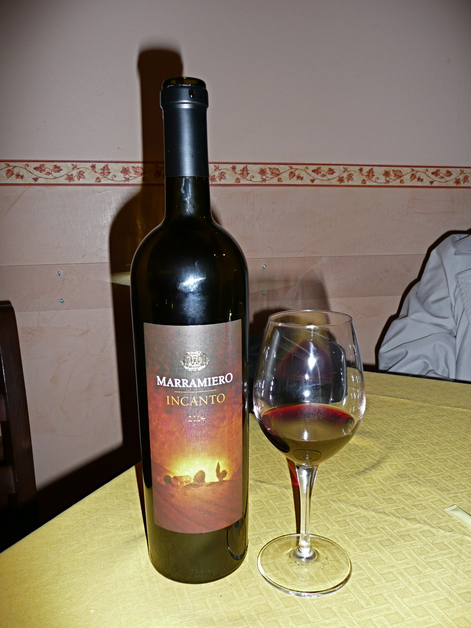 Italian red wine from the Abruzzo region.